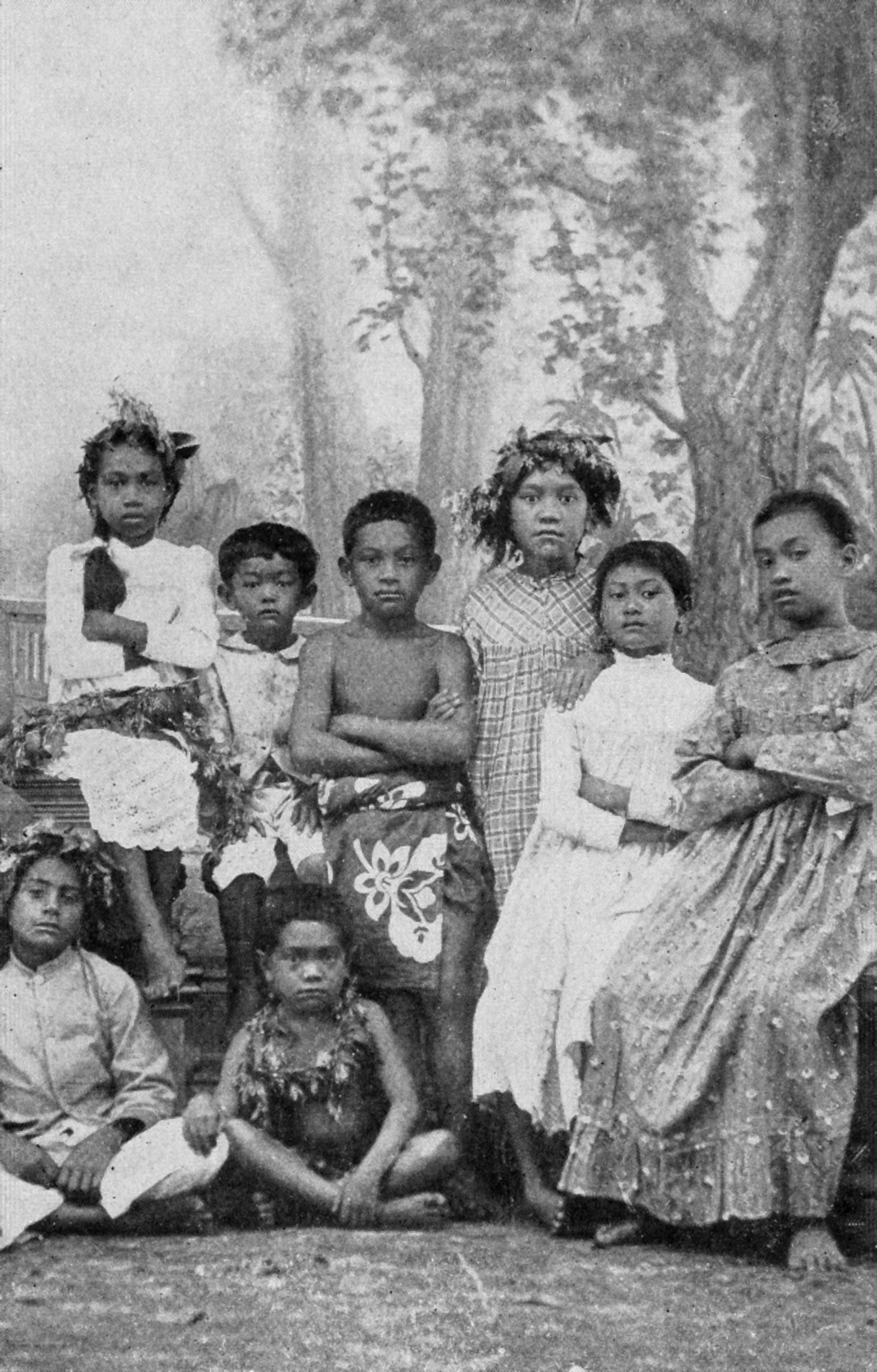 Group of Tahitian children.